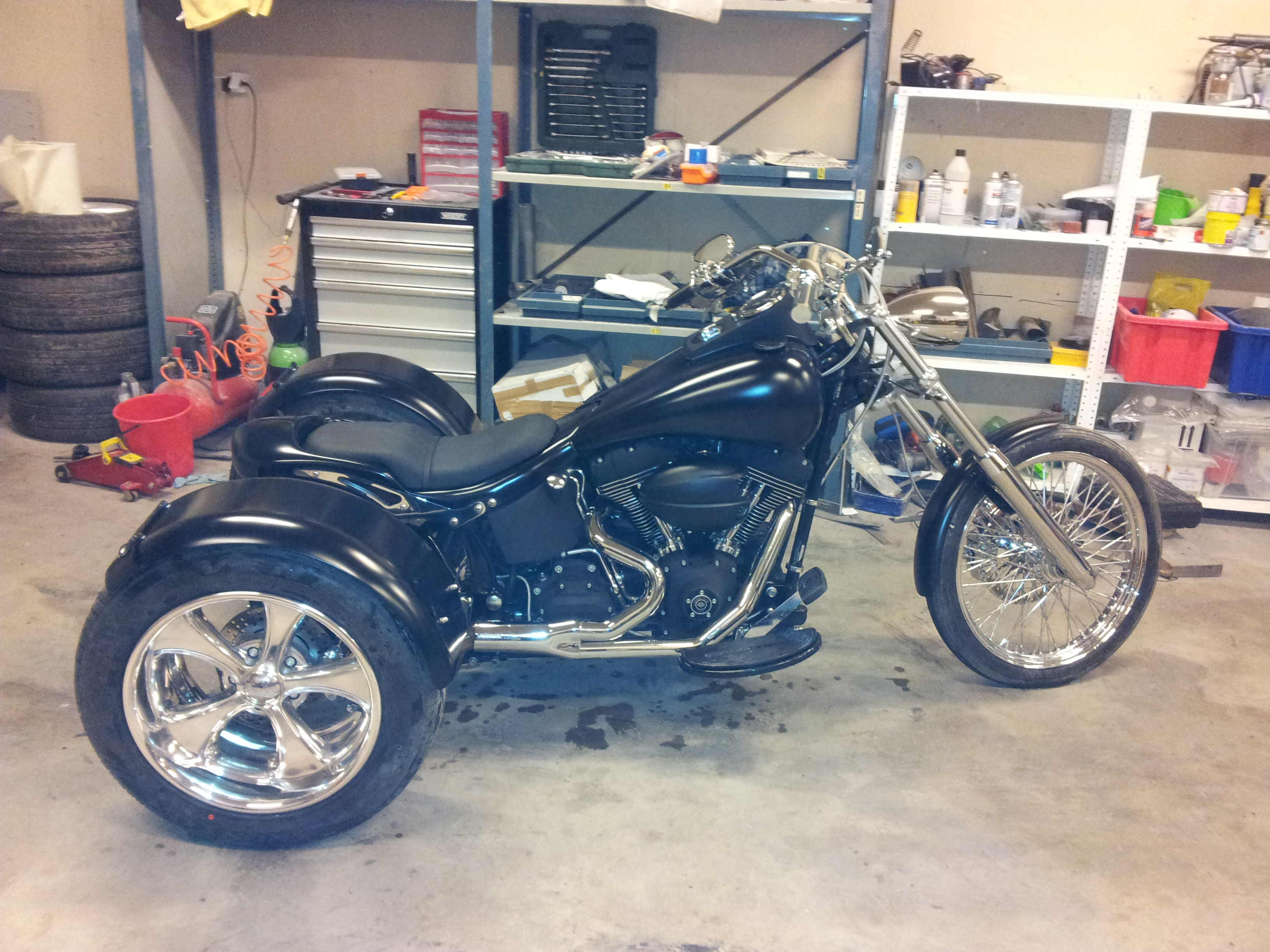 My homebuilt trike based on a H-D nigthtrain